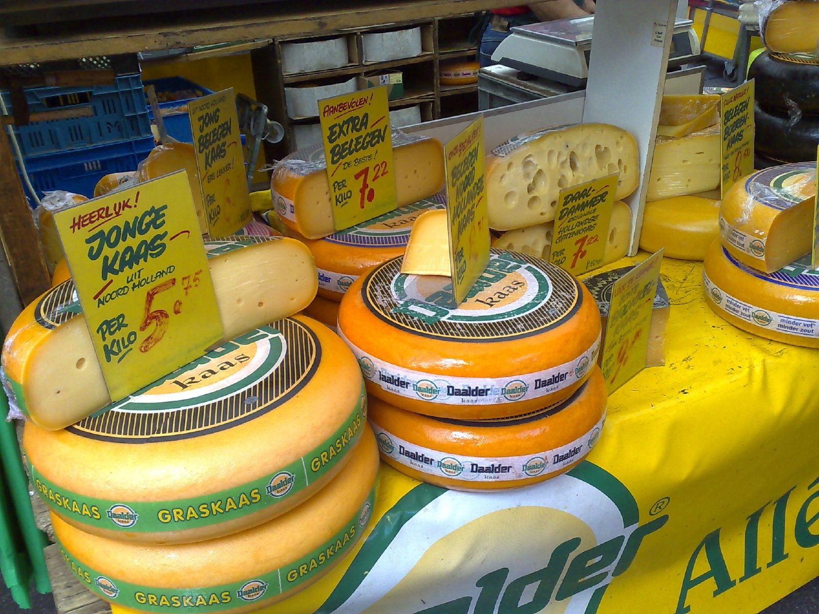 Different types of Dutch cheese